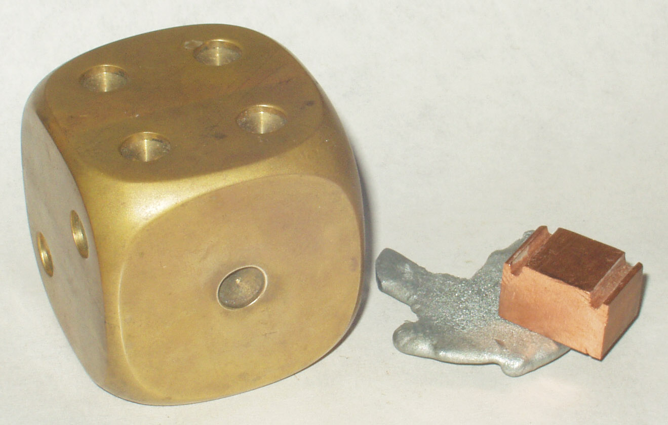 Solid brass (with a sample of the components: zinc and copper).